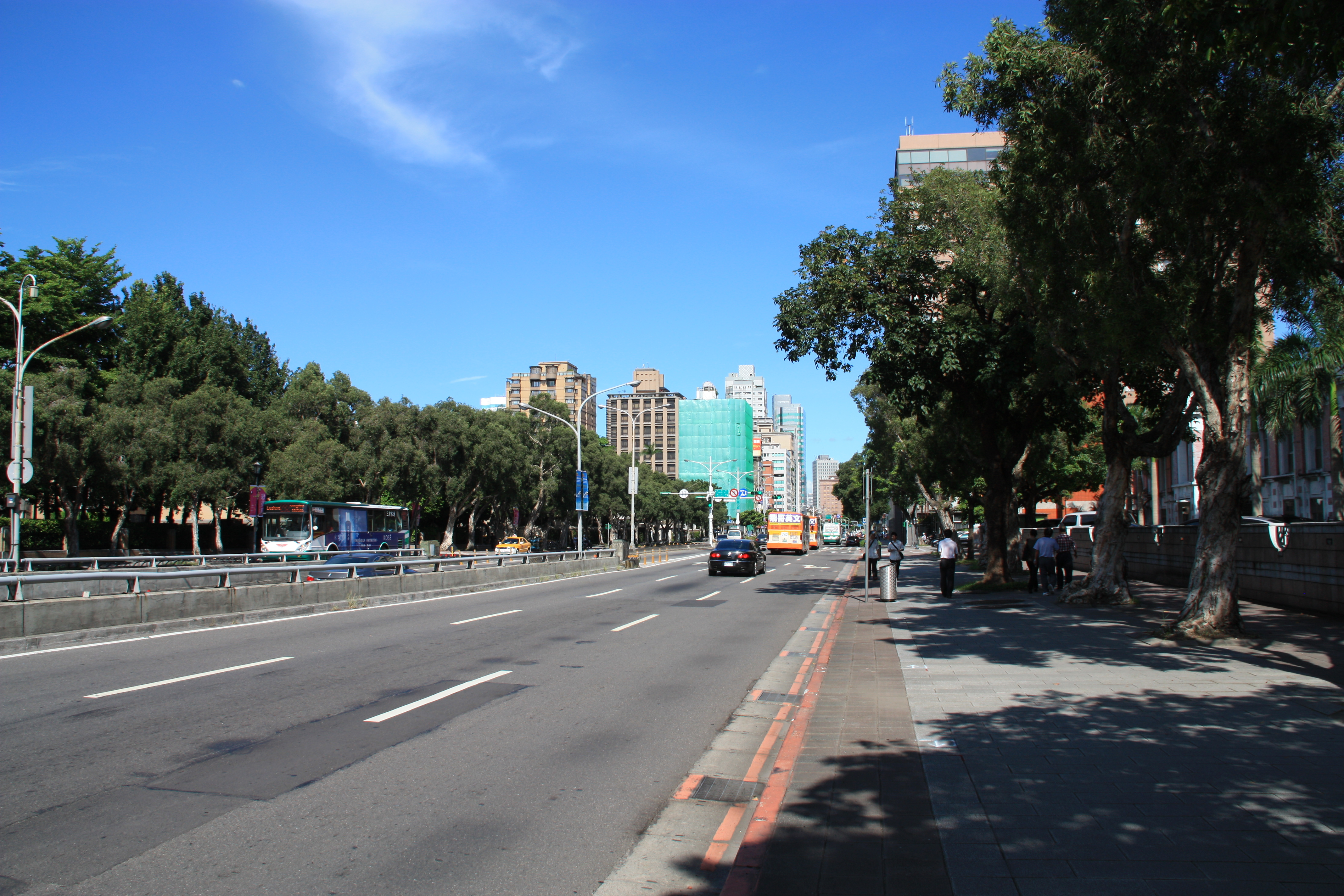 Zhongxiao East Road Section 1 between Executive Yuan and Control Yuan, Zhongzheng District, Taipei City.